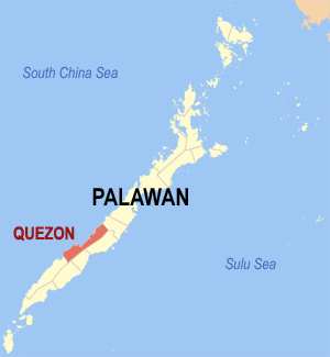 Map of Palawan showing the location of Quezon